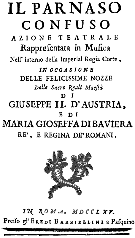 Christoph Willibald Gluck - Il Parnaso confuso - titlepage of the libretto - Vienna 1765